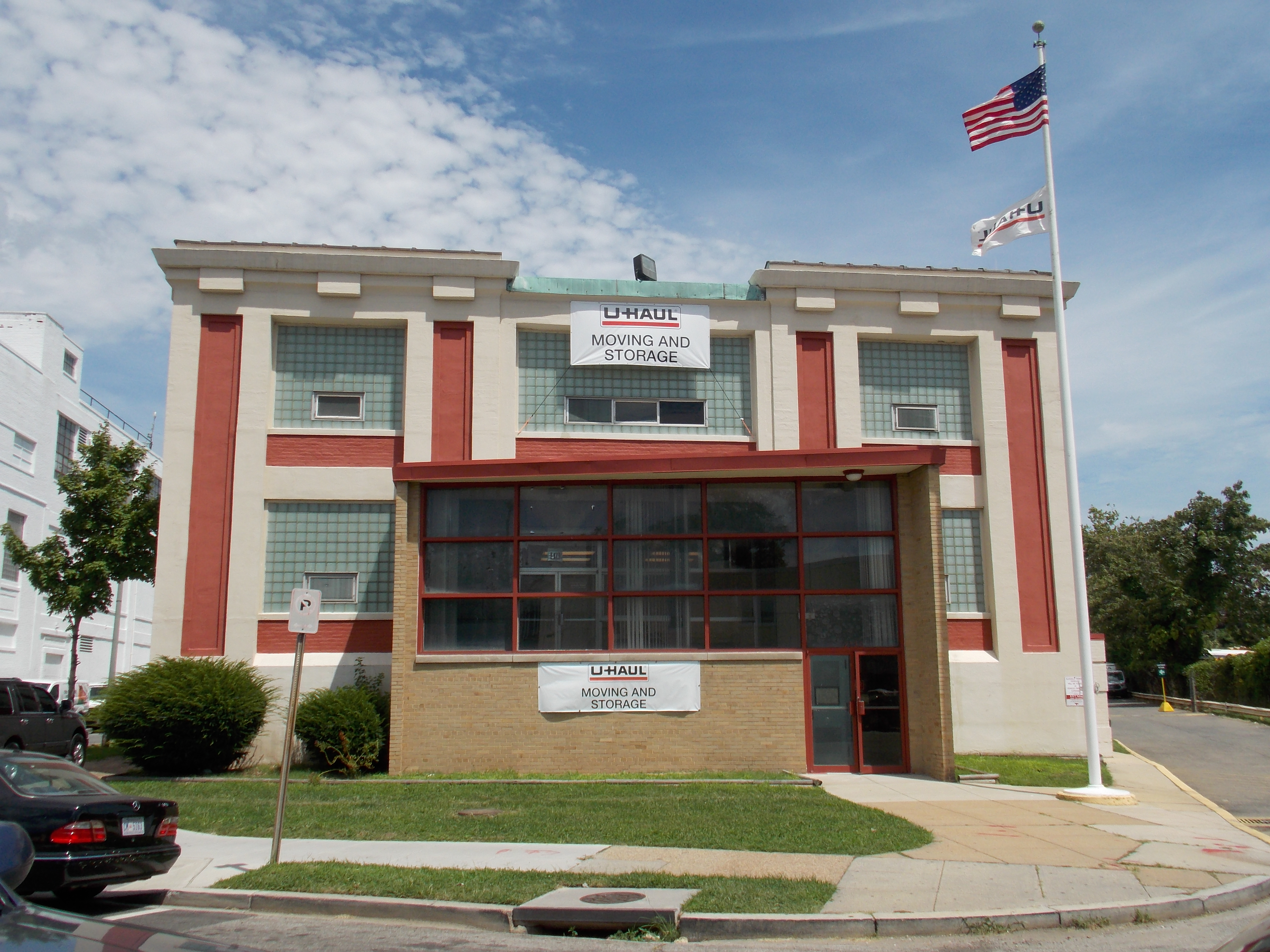 U.S. Post Office Department Mail Equipment Shops